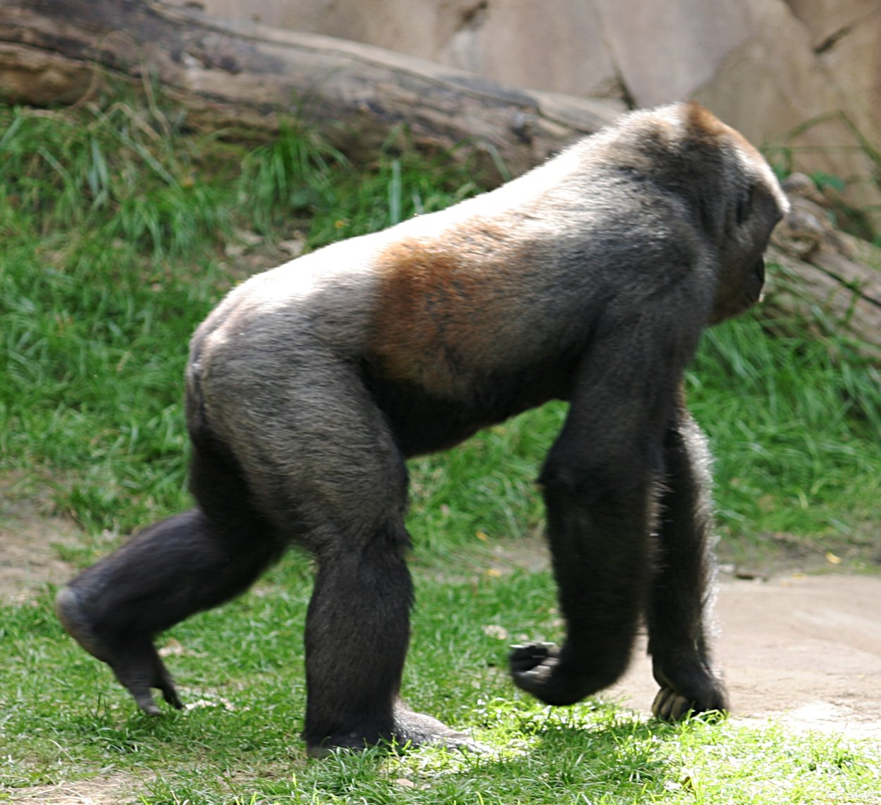 Western Lowland Gorilla at the Henry Doorly Zoo in Omaha, Nebraska